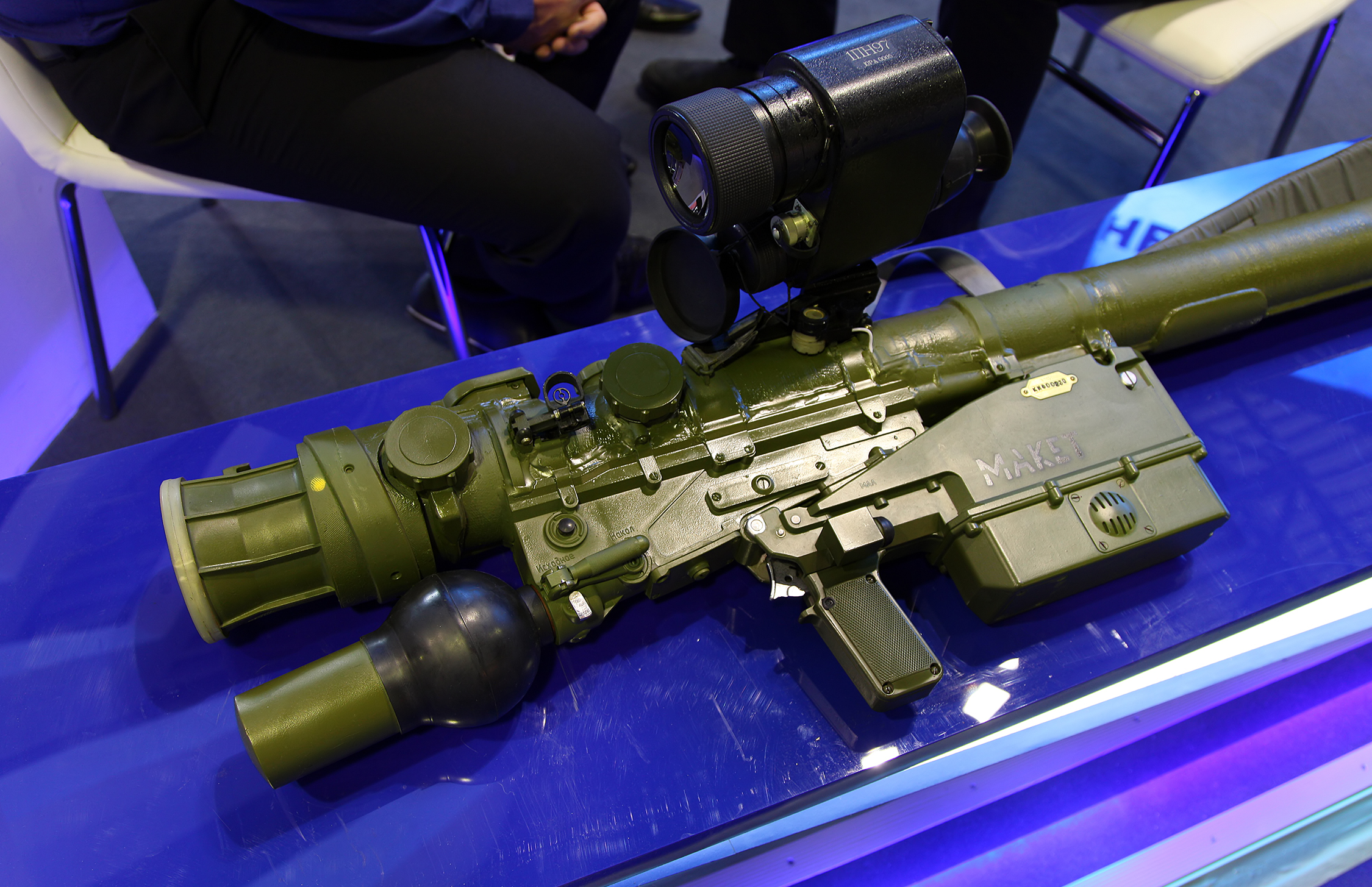 9K333 Verba MANPAD